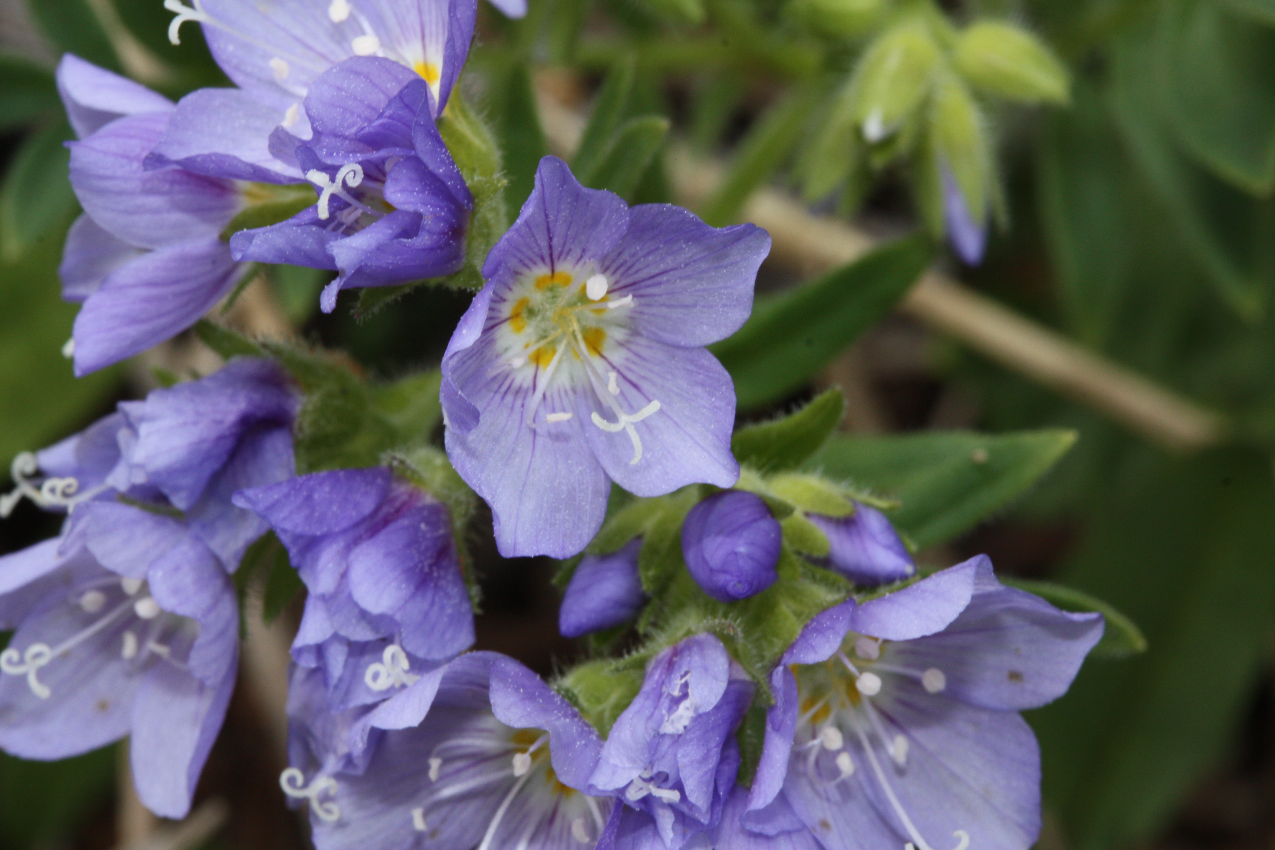 Moving Polemonium, Low Jacob's-ladder